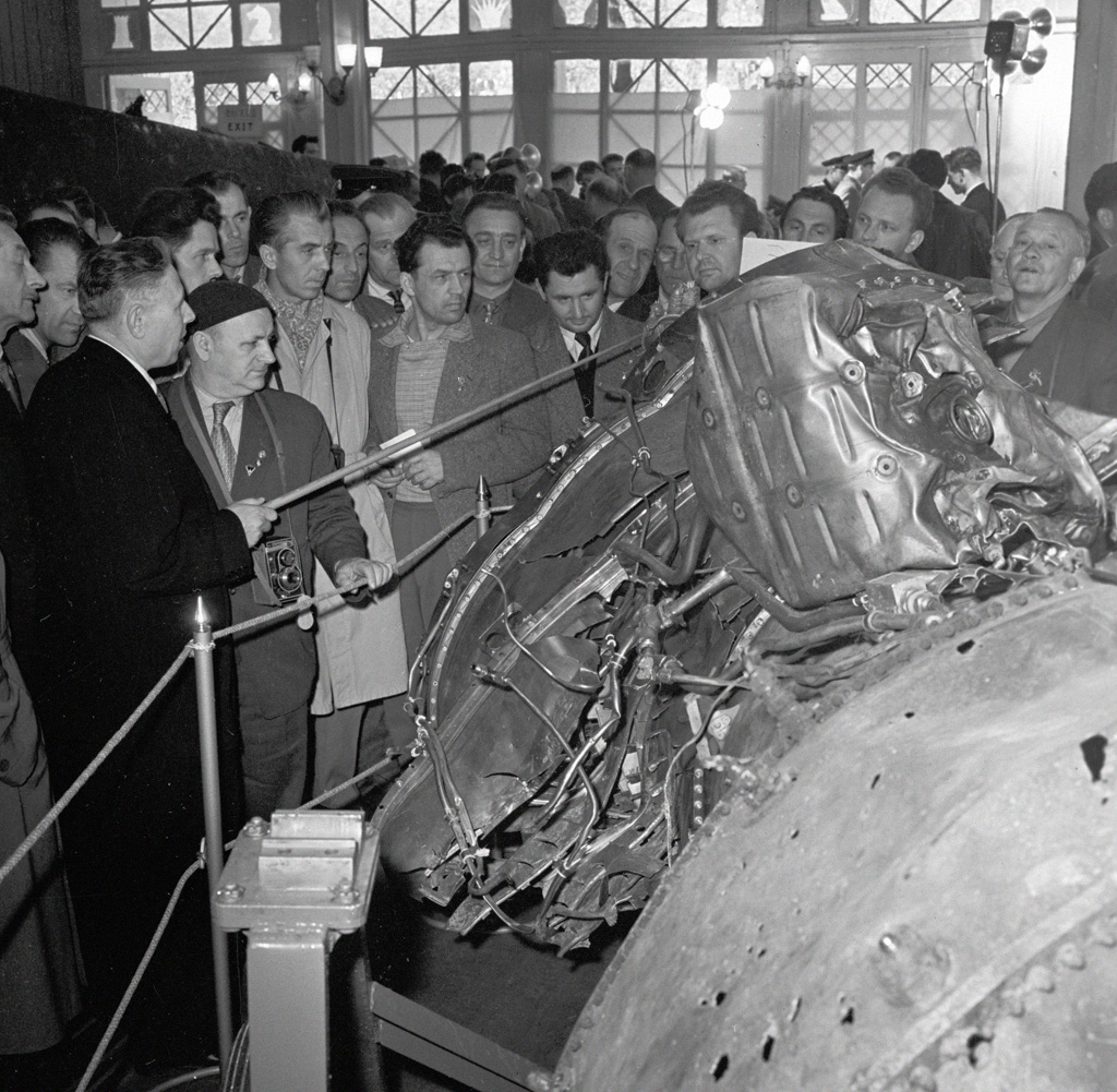 “Engine of Downed American Plane”. The engine of the downed American Lockheed U-2 plane piloted by spy flier Francis Gary Powers on view in the Gorky Park.